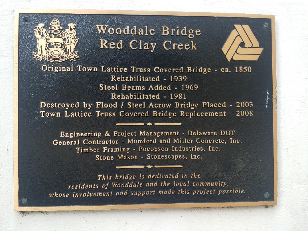 Plaque on the Wooddale Covered Bridge that denotes the important dates of the bridge and the rebuilding effort that came about after the original was destroyed.